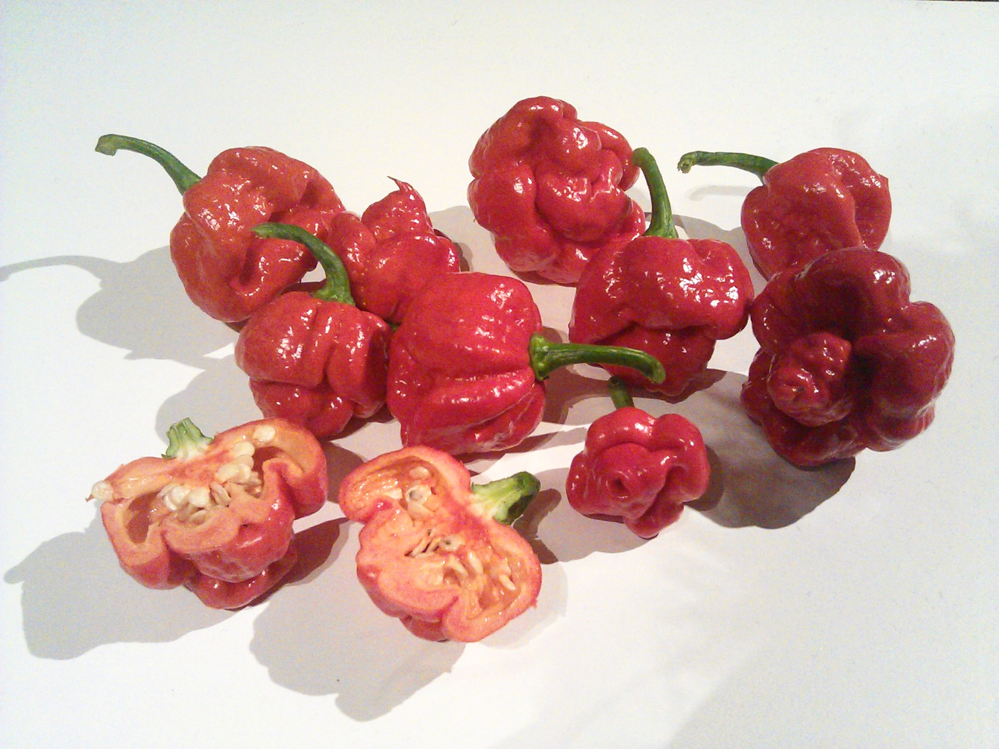 Trinidad Moruga Scorpion chili peppers.